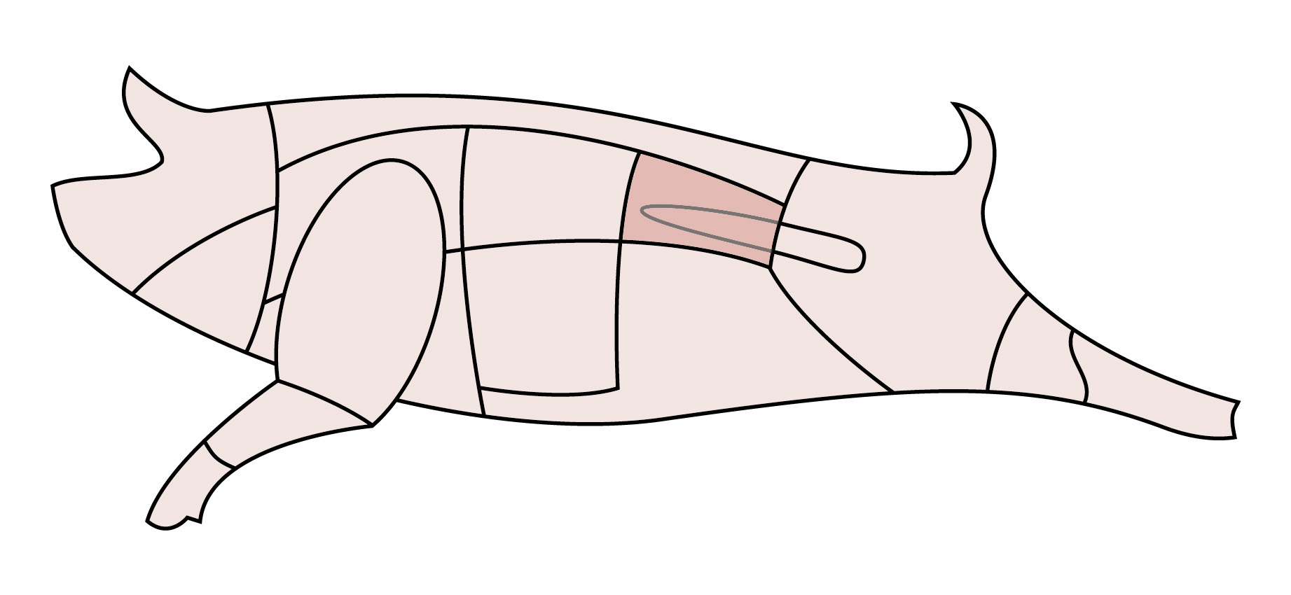 pork chop scheme